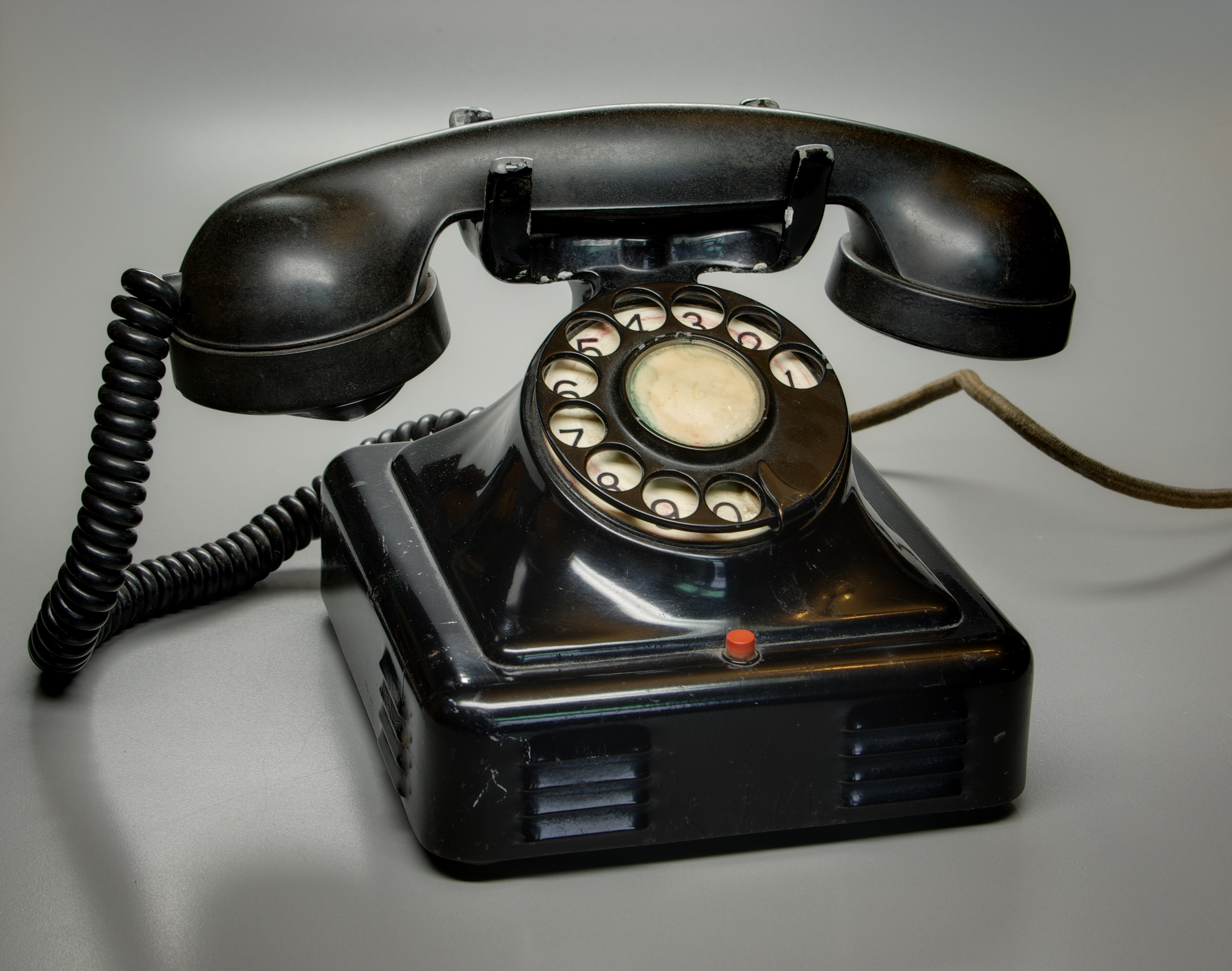 Rotary dial telephone, probably from Belgium, the cricuit diagram inside is in dutch and french